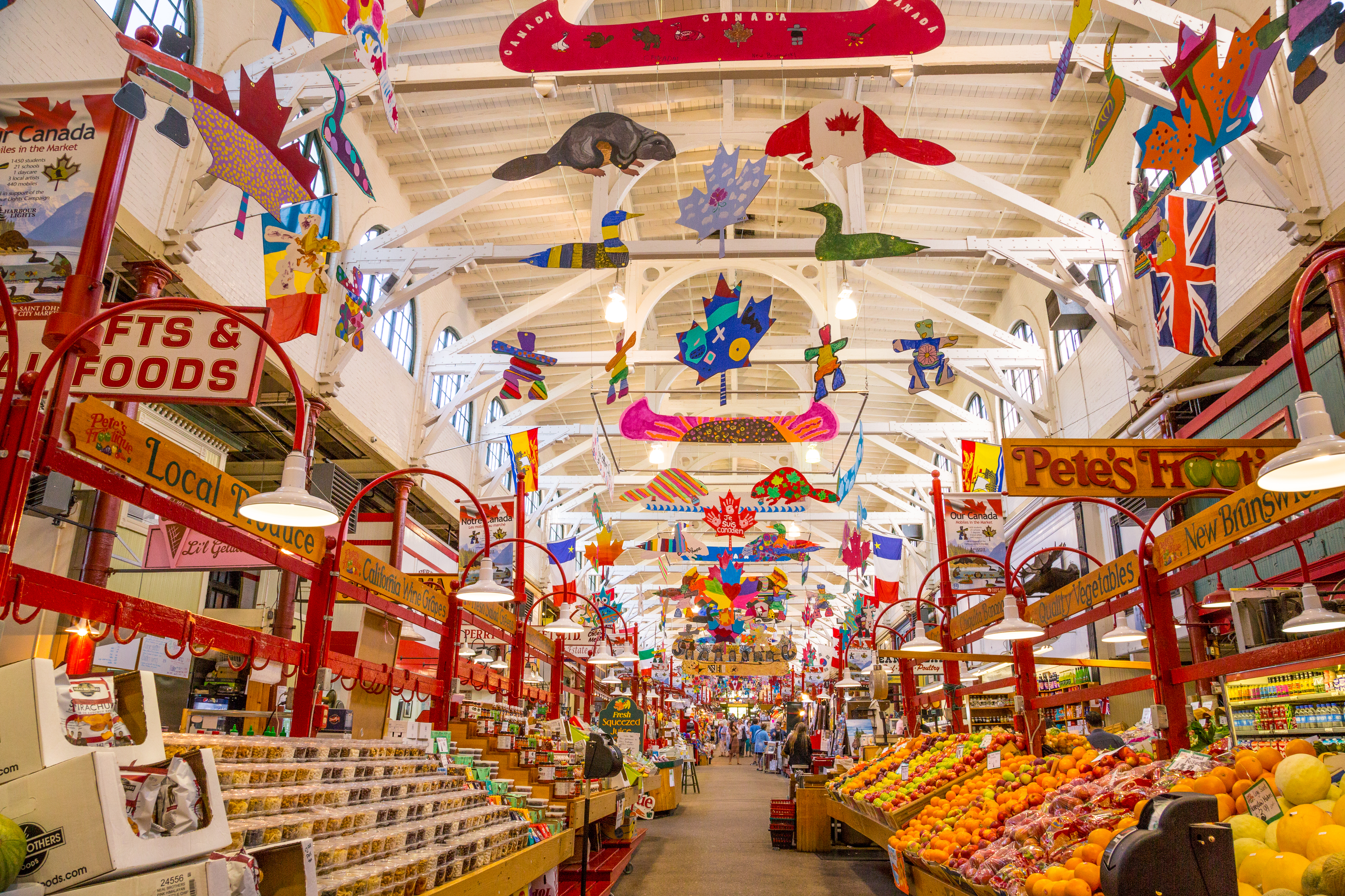 Saint John, New Brunswick, Canada